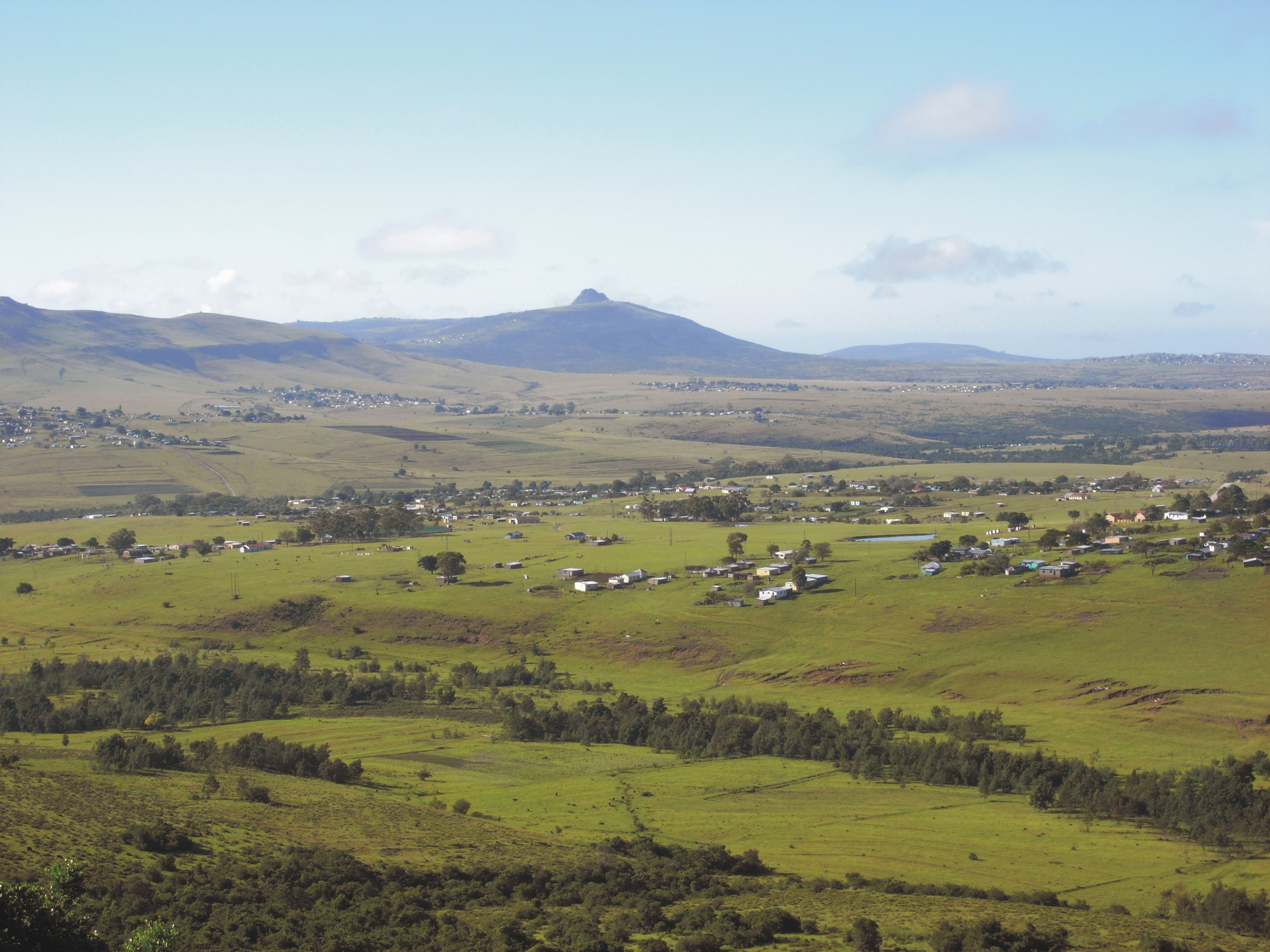 Amathole Mountains, view from Hogsback Pass into Tyhume Valley (Eastern Cape, South Africa)